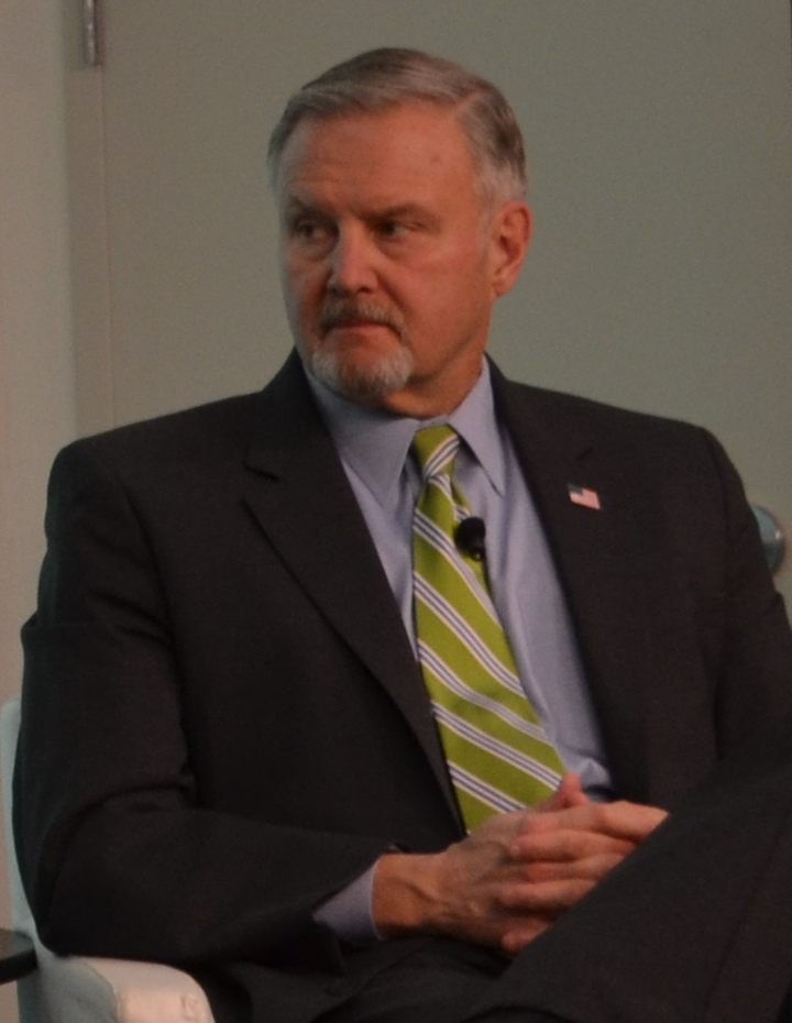 Peter Bergen, Andy Worthington, Thomas Wilner, and Col. Morris Davis